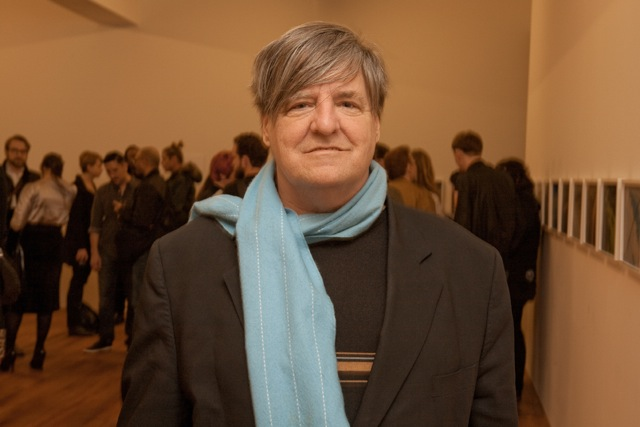 Killian Kevin by Daniel Nicoletta. 2012